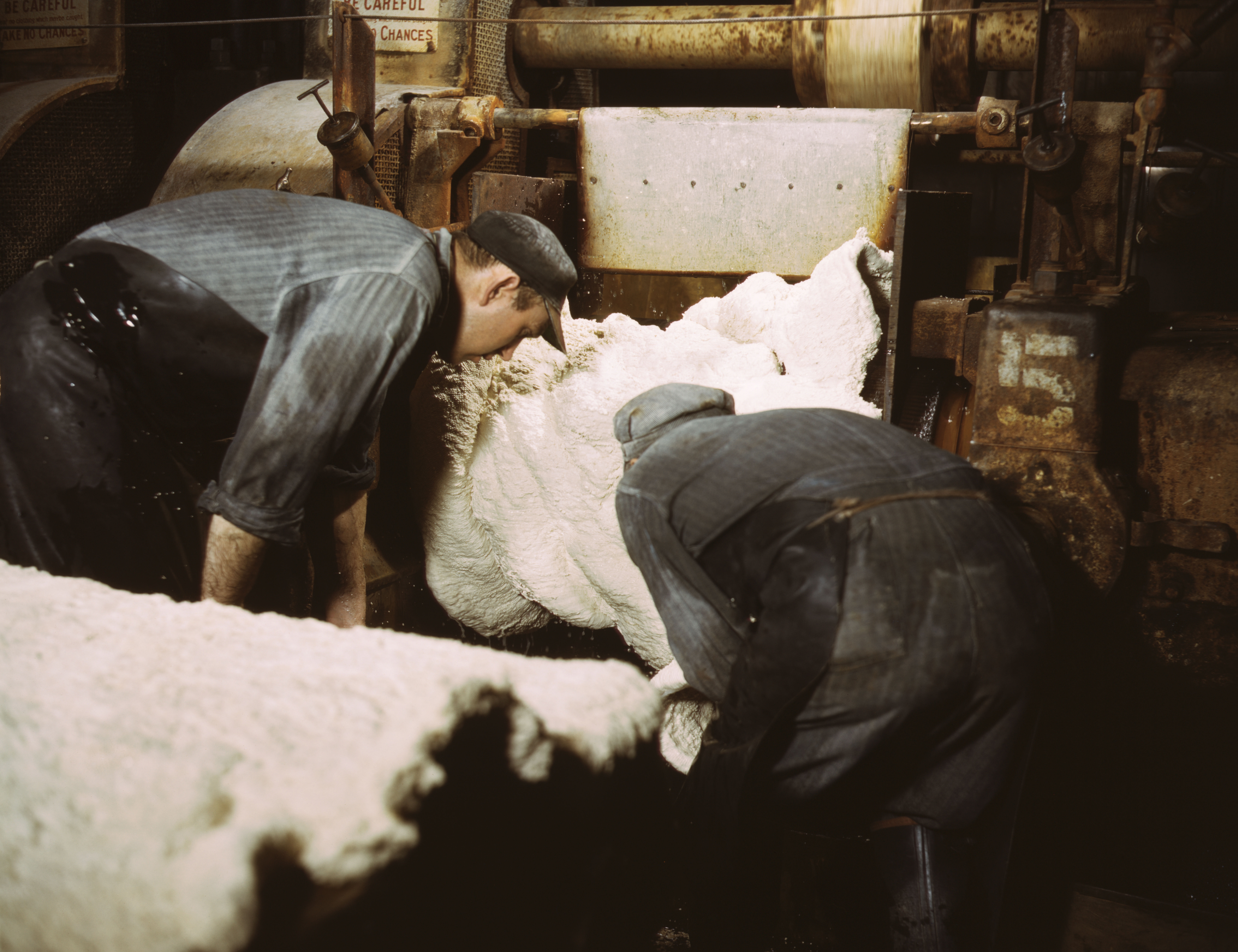 This sheet of synthetic rubber coming off the rolling mill at the plant is now ready for drying, B.F. Goodrich Co., Akron, Ohio. Synthetic rubber made by the "ameripol" process is derived from butadiene (a petroleum derivative). In this rolling mill the crumbs of rubber are squeezed dry of excess water and pressed together into the blanket shown here In 1940, B.F. Goodrich Company scientist Waldo Semon developed a cheaper version of synthetic rubber known as Ameripol. It made synthetic rubber production much more cost effective.